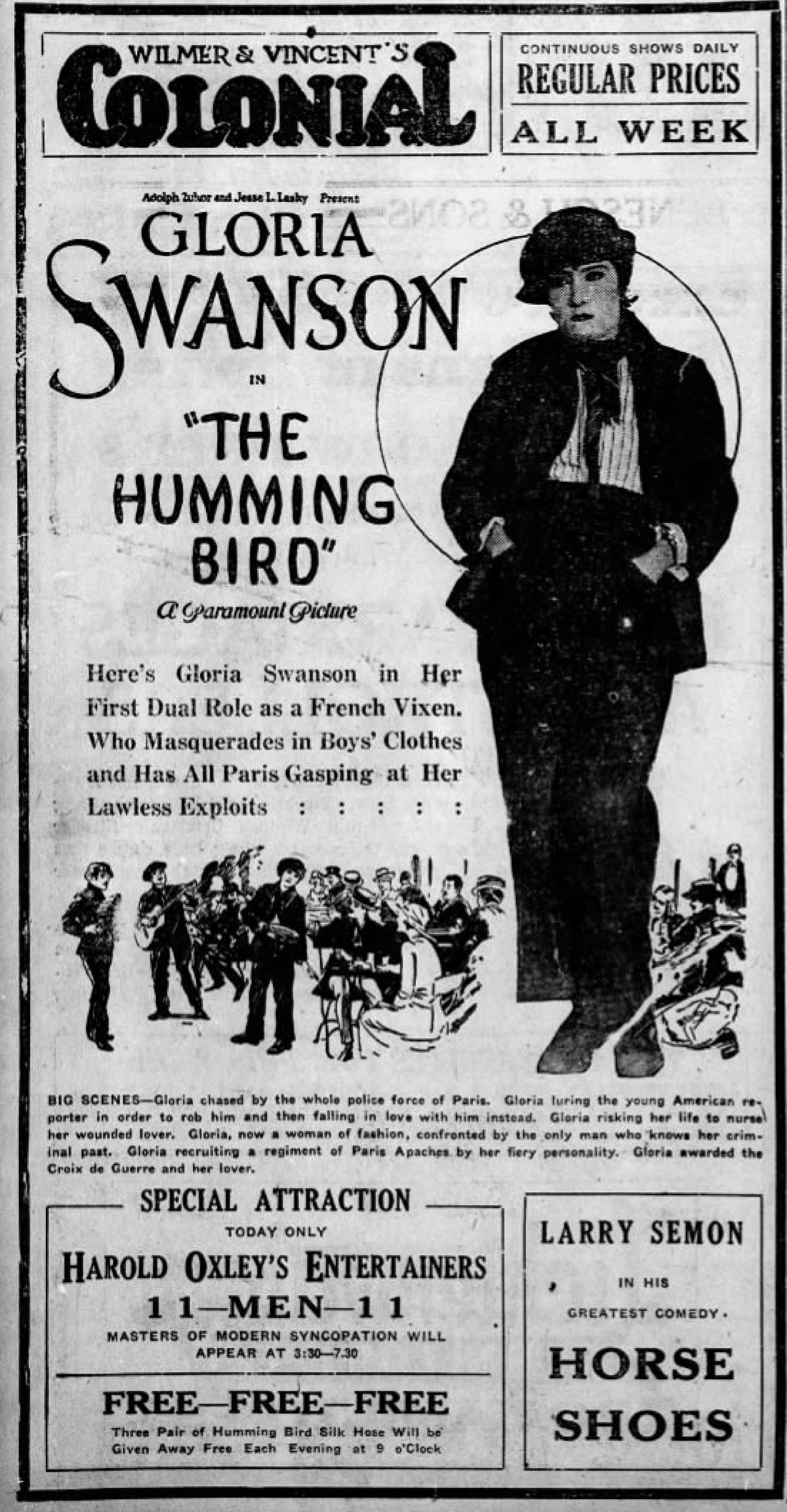 Colonial Theater Ad - 3 Mar MC - Allentown PA - for the American crime drama film The Humming Bird (1924)